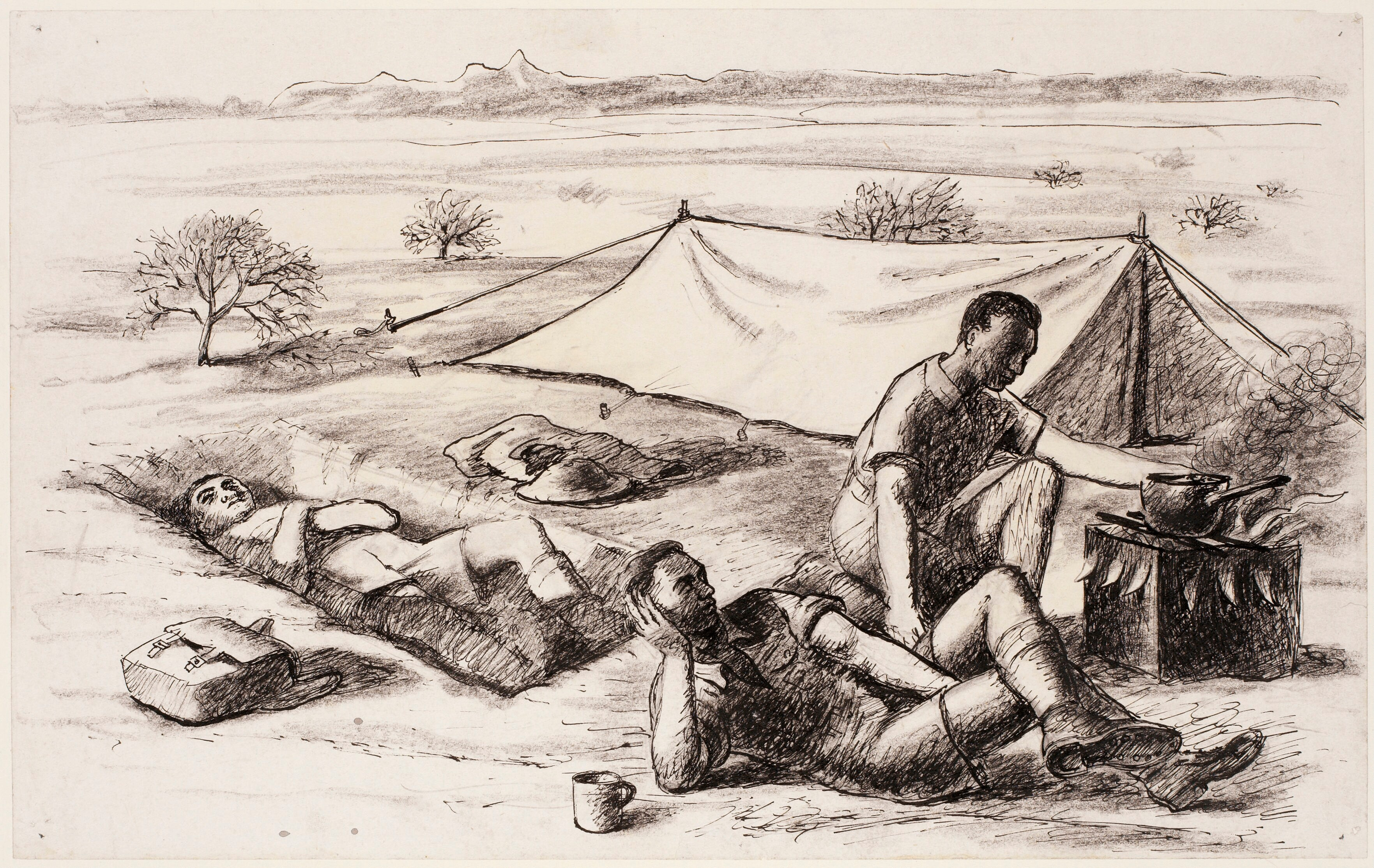 Brewing-up on a Fire of Sand and Petrol in the Libyan Desert image: a soldier tends a pan on a fire outside a tent in the desert. Another soldier lies on the ground next to him, while behind them a third soldier lies in a shallow ditch with a satchel at his side.